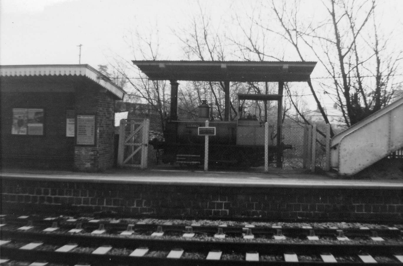 Steam locomotive "Shannon" built by George England and Company in 1857. Photographed at the (now closed) Wantage Road Station in the 1960s.